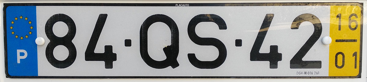 Portuguese license plate 2005-2020